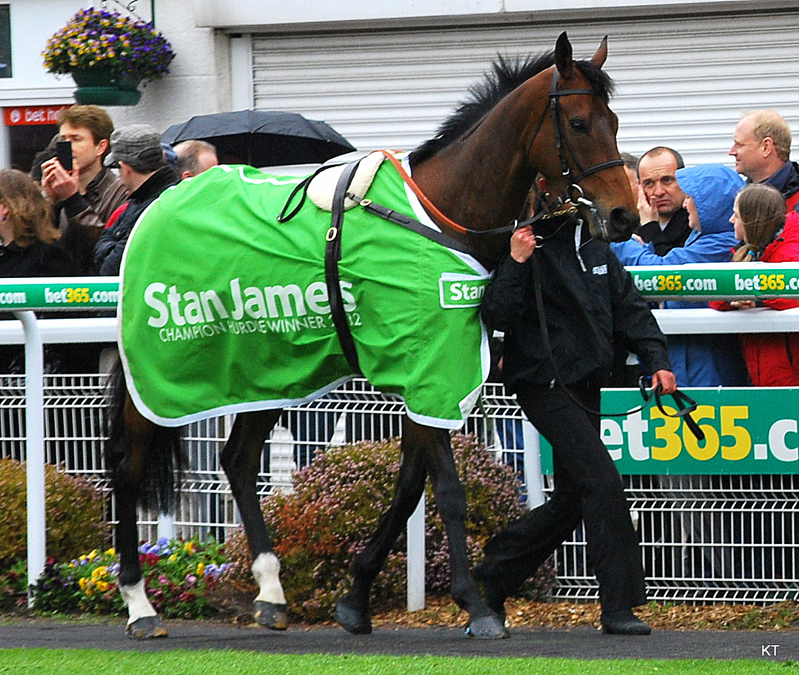 Champion Hurdle winner Rock On Ruby in the Champions Parade at Sandown on bet365 Gold Cup Day, April 28th 2012.